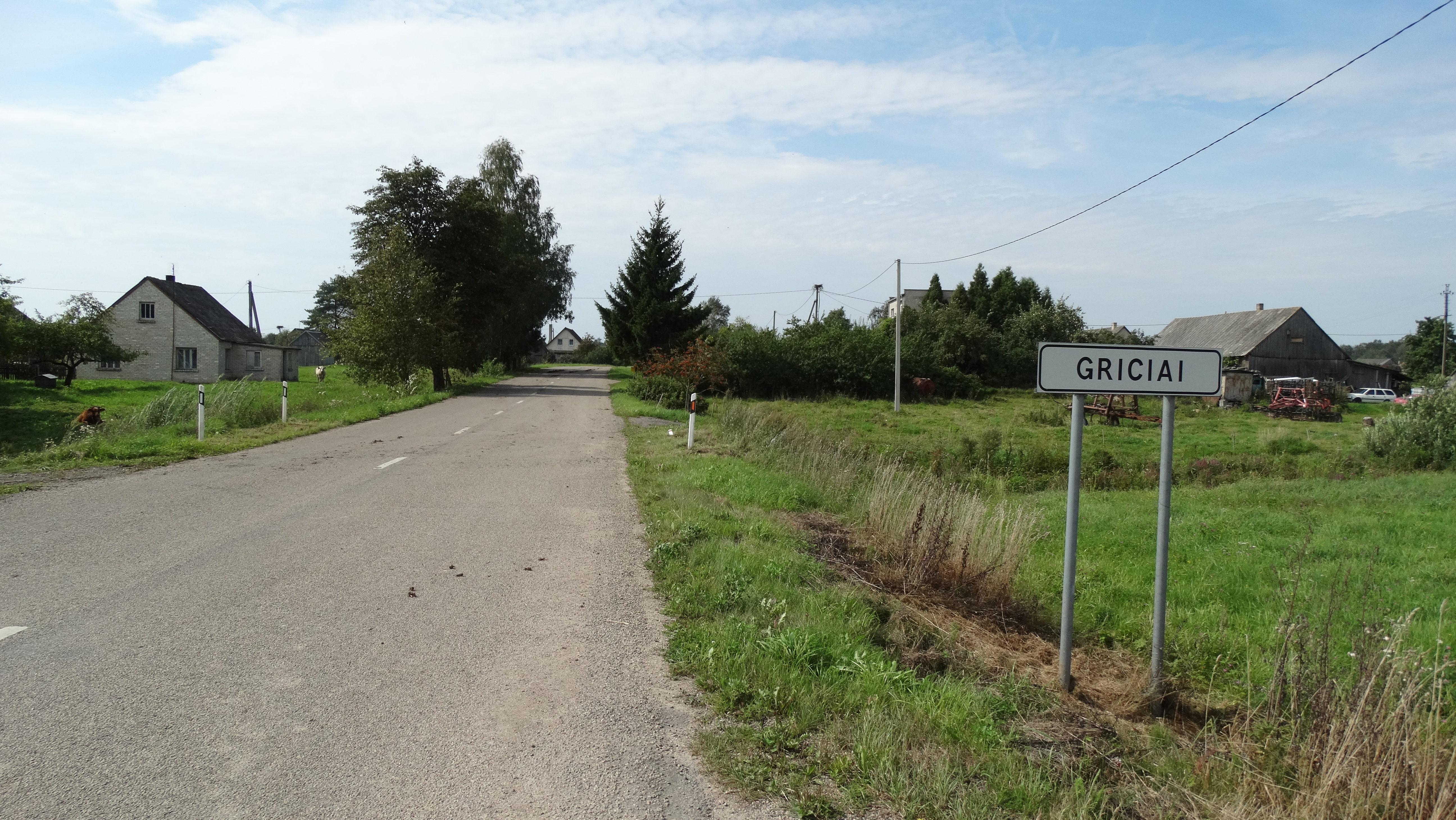 Griciai, Jurbarkas district Lithuania